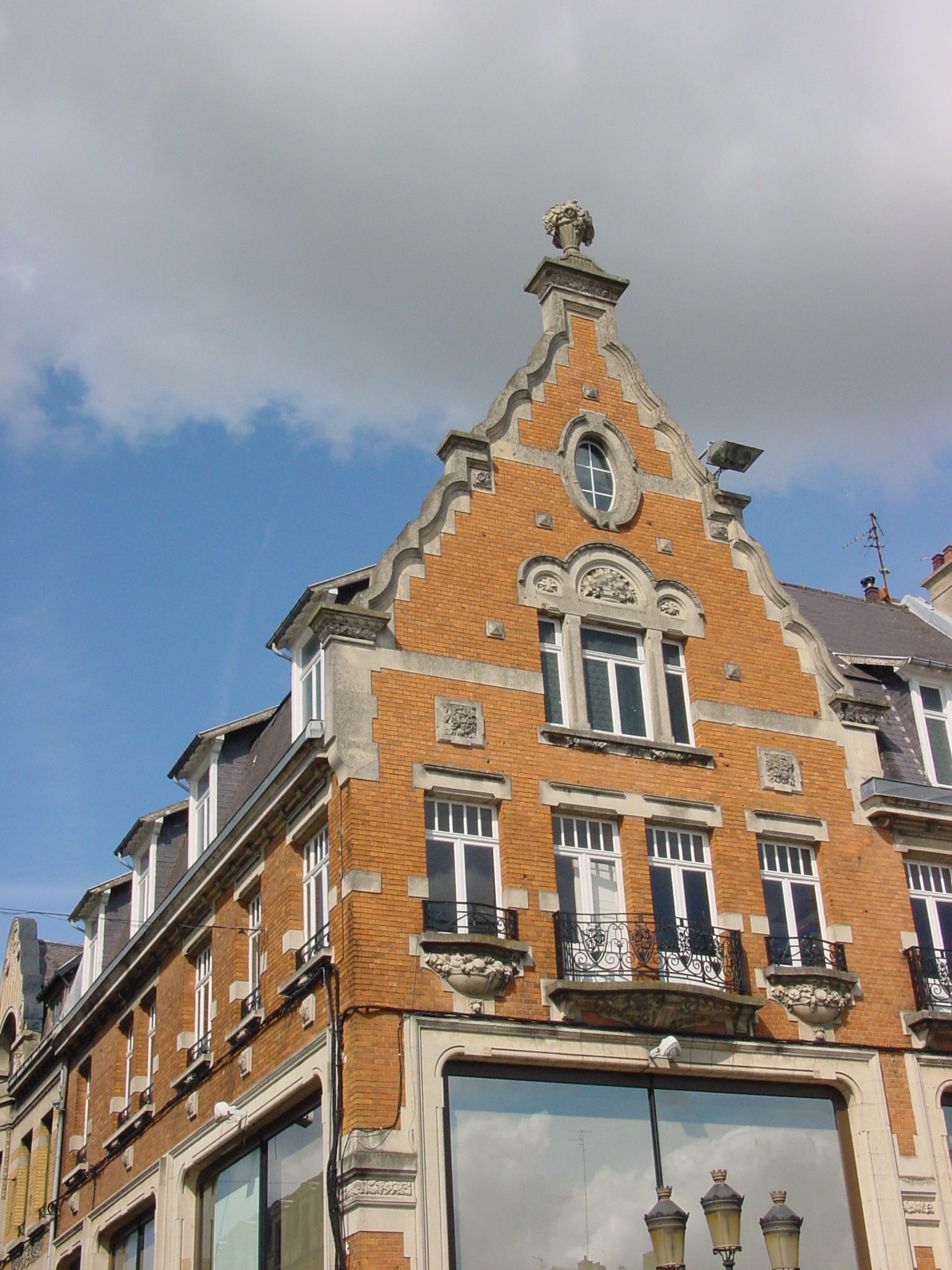 Post-WWI reconstruction on "grand-place" (main square) of Cambrai (France) in a "regional" style